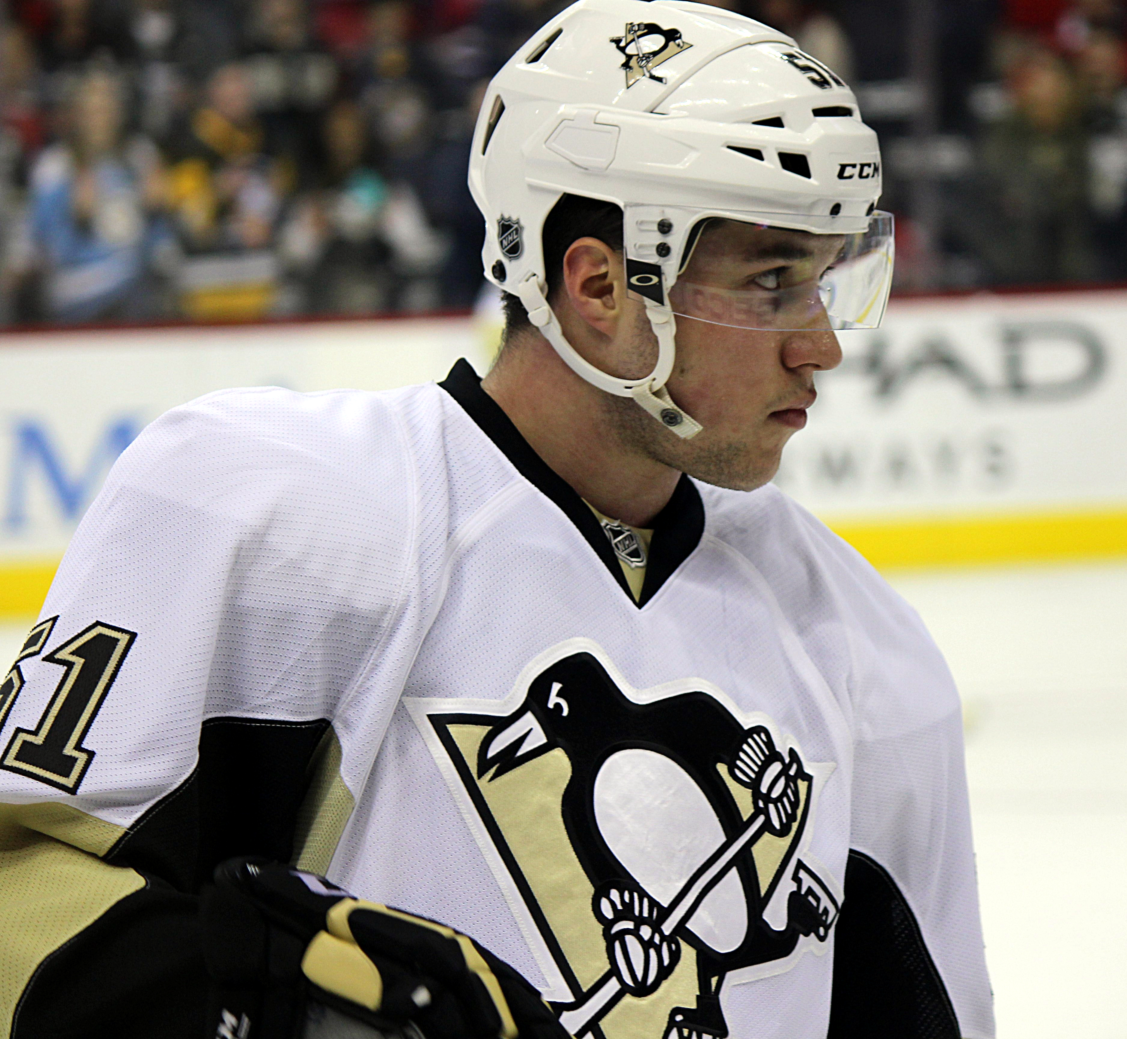 Pittsburgh Penguins defenseman Derrick Pouliout during a game against the Washington Capitals, Thursday, April 28, 2016, at Verizon Center in Washington, D.C.